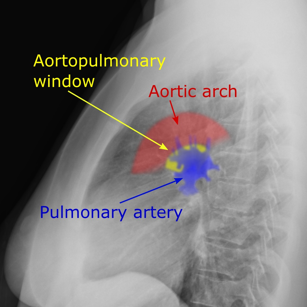 The Aortopulmonary window, seen on a normal lateral chest radiograph. Reference: “Aortopulmonary Window or Angle on the Chest Radiograph?”, in American Journal of Roentgenology, volume 182, issue 4, 2004, ISSN 0361-803X, pages 1085–1086